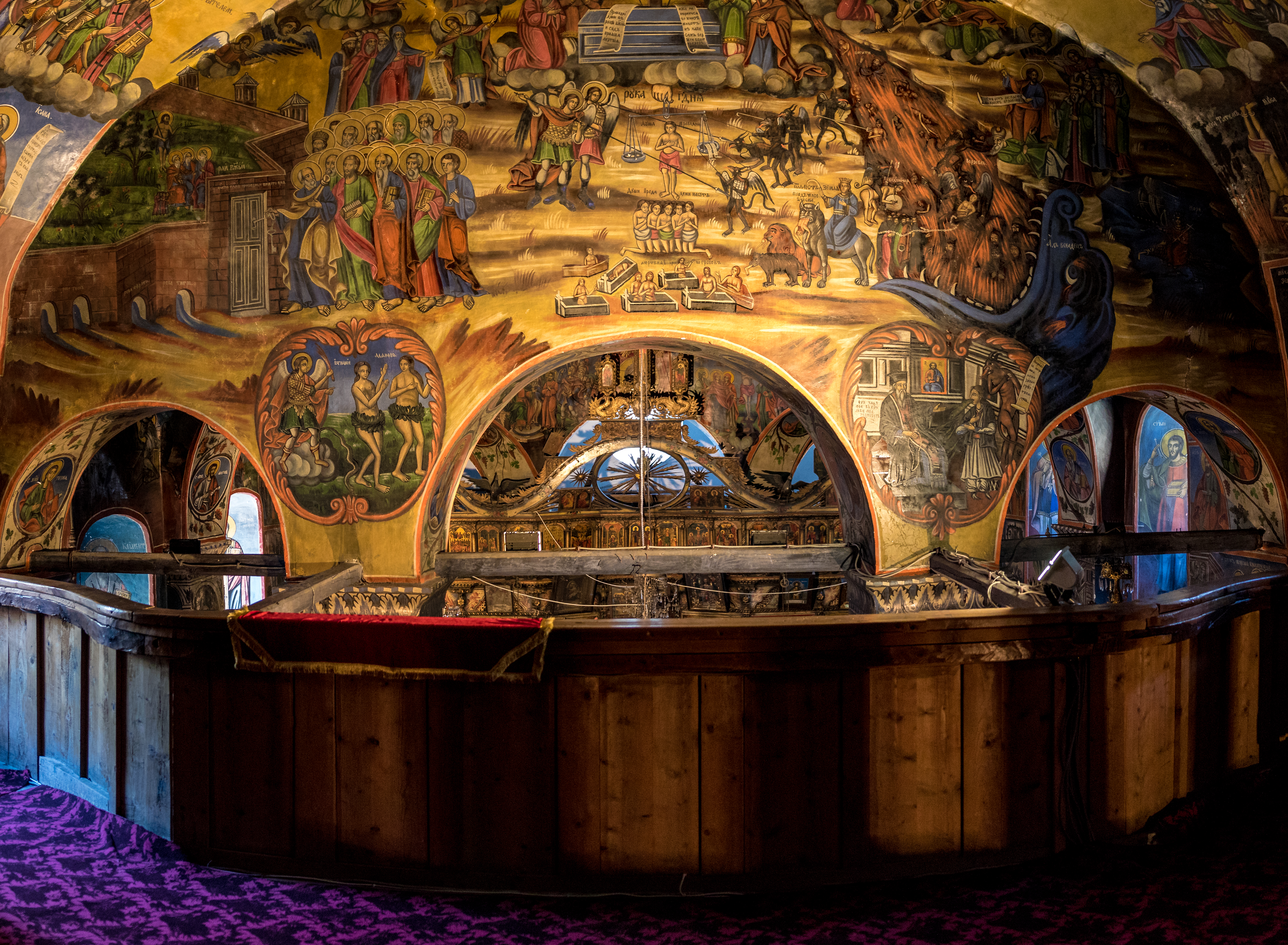 Interior of the Dormition of the Theotokos Church in Gari